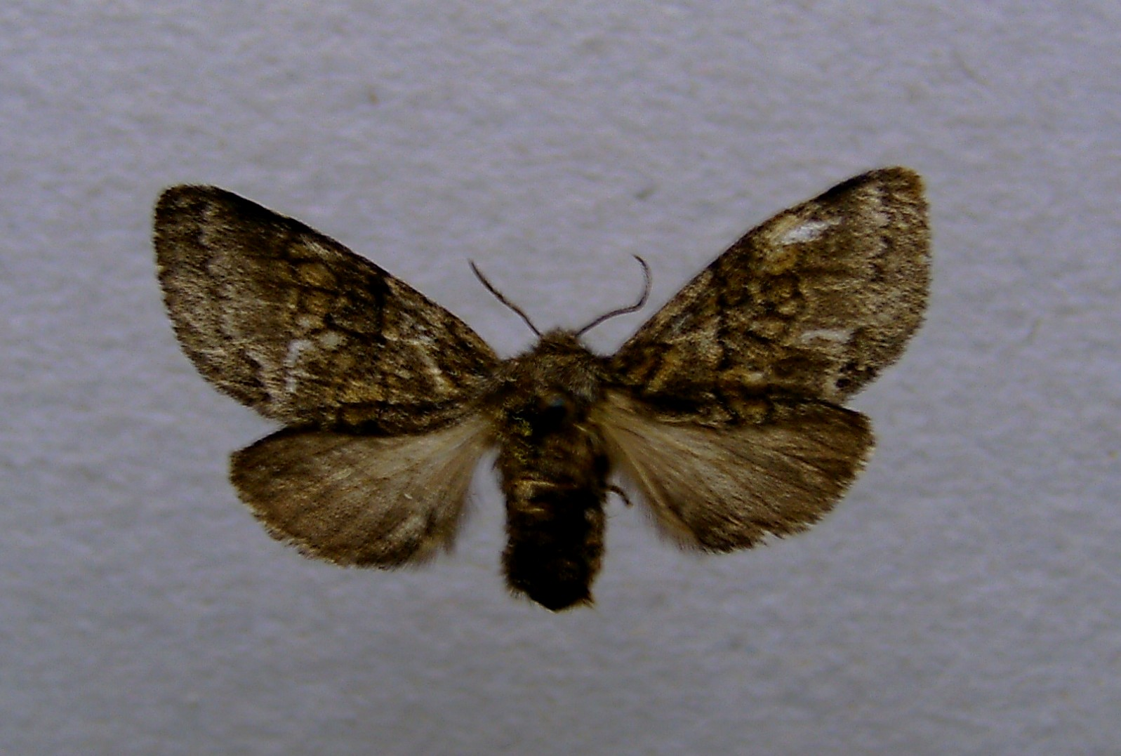 Gluphisia crenata